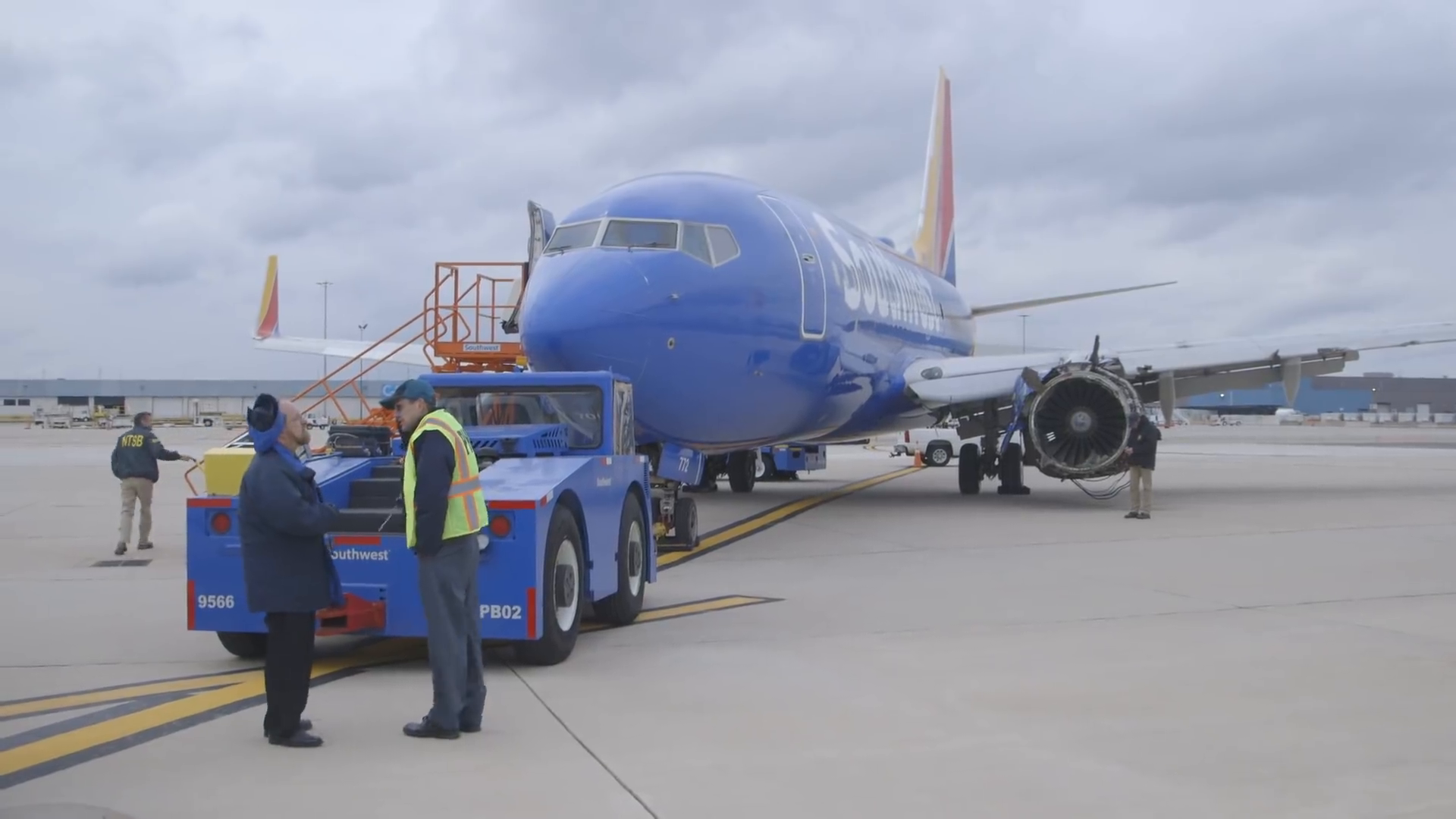 NTSB investigators conducting a preliminary walkthrough of Southwest Airlines flight 1380 in Philadelphia, PA PHL N772SW Screengrab from video